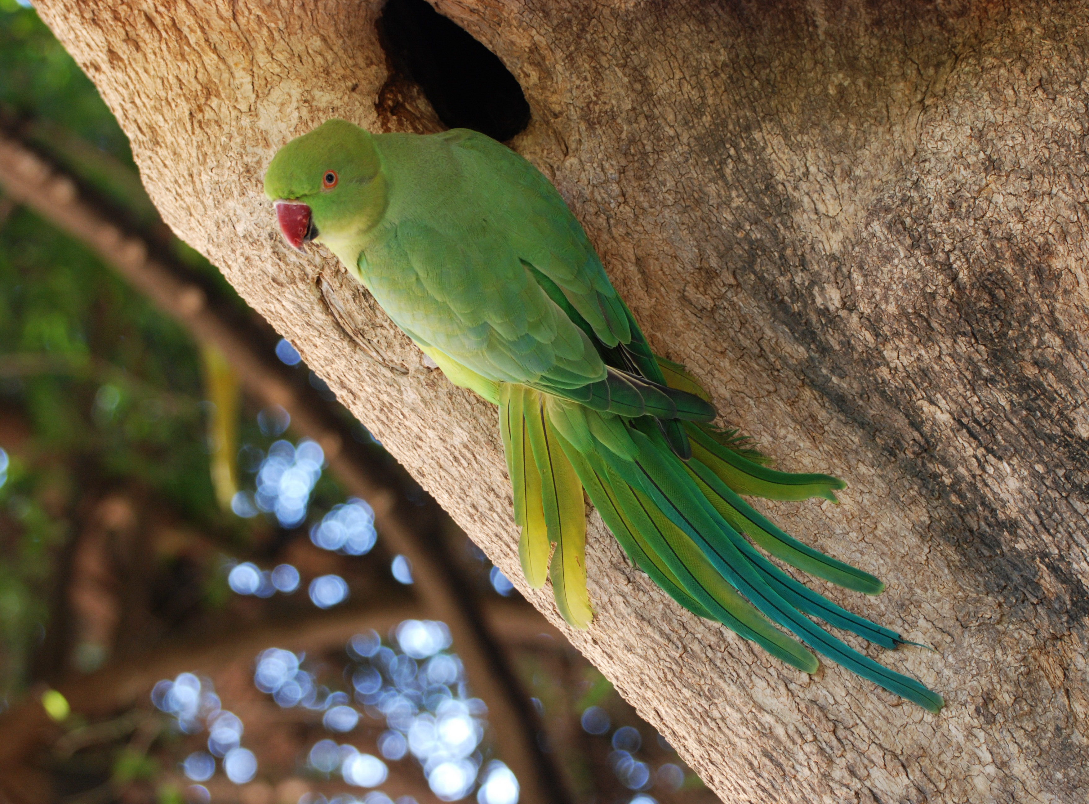 Rose-ringed Parakeet (Psittacula krameri), female, North India